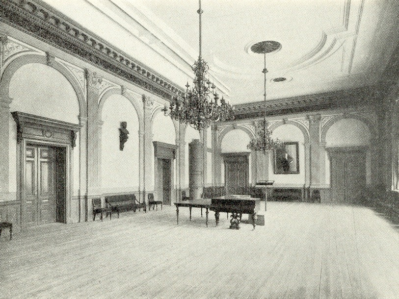 The great hall of Östgöta nation, student society at Uppsala University in Sweden.